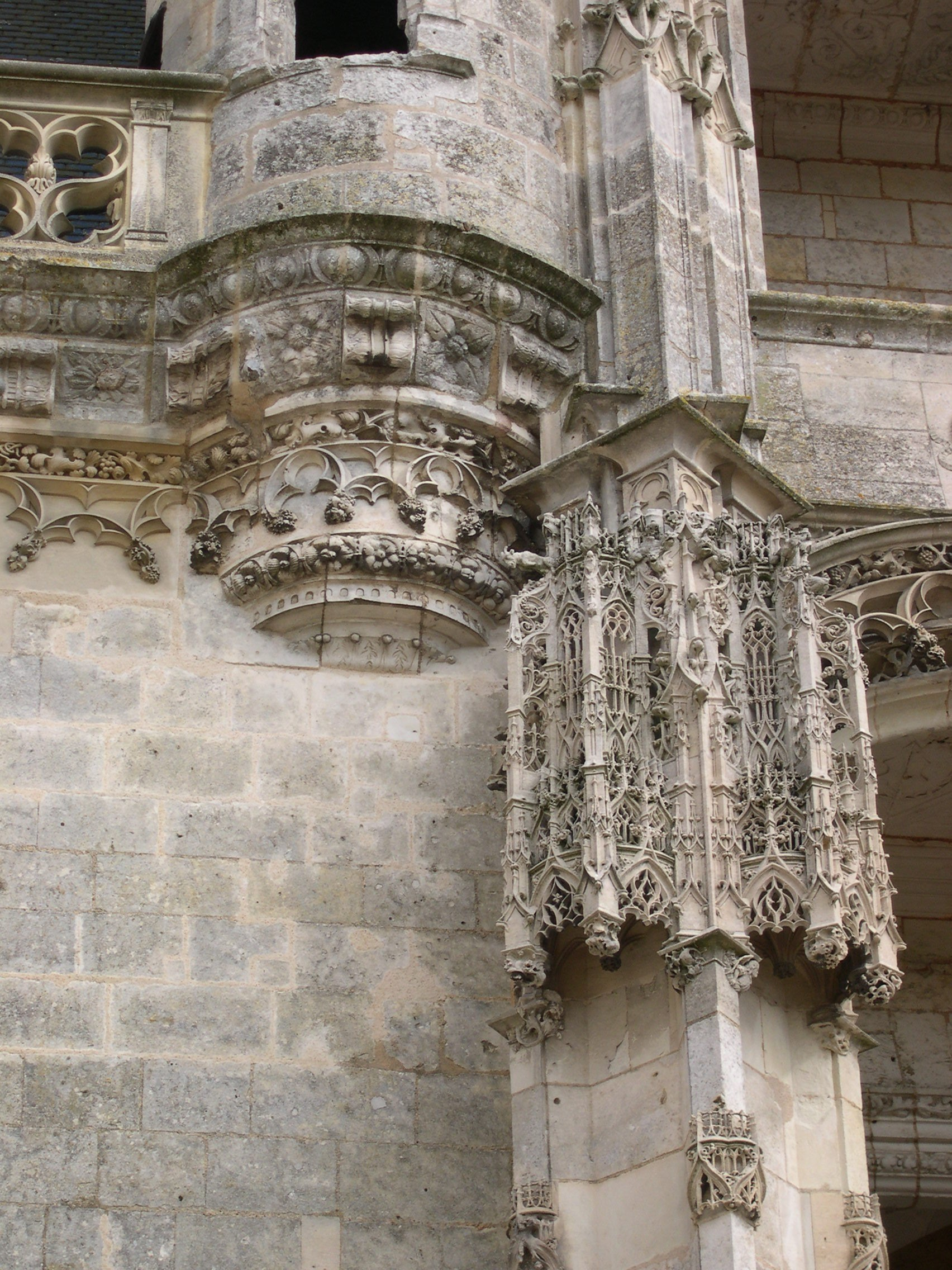 Castle of Chateaudun (France) : Longueville aisle detail